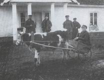 Bilostok